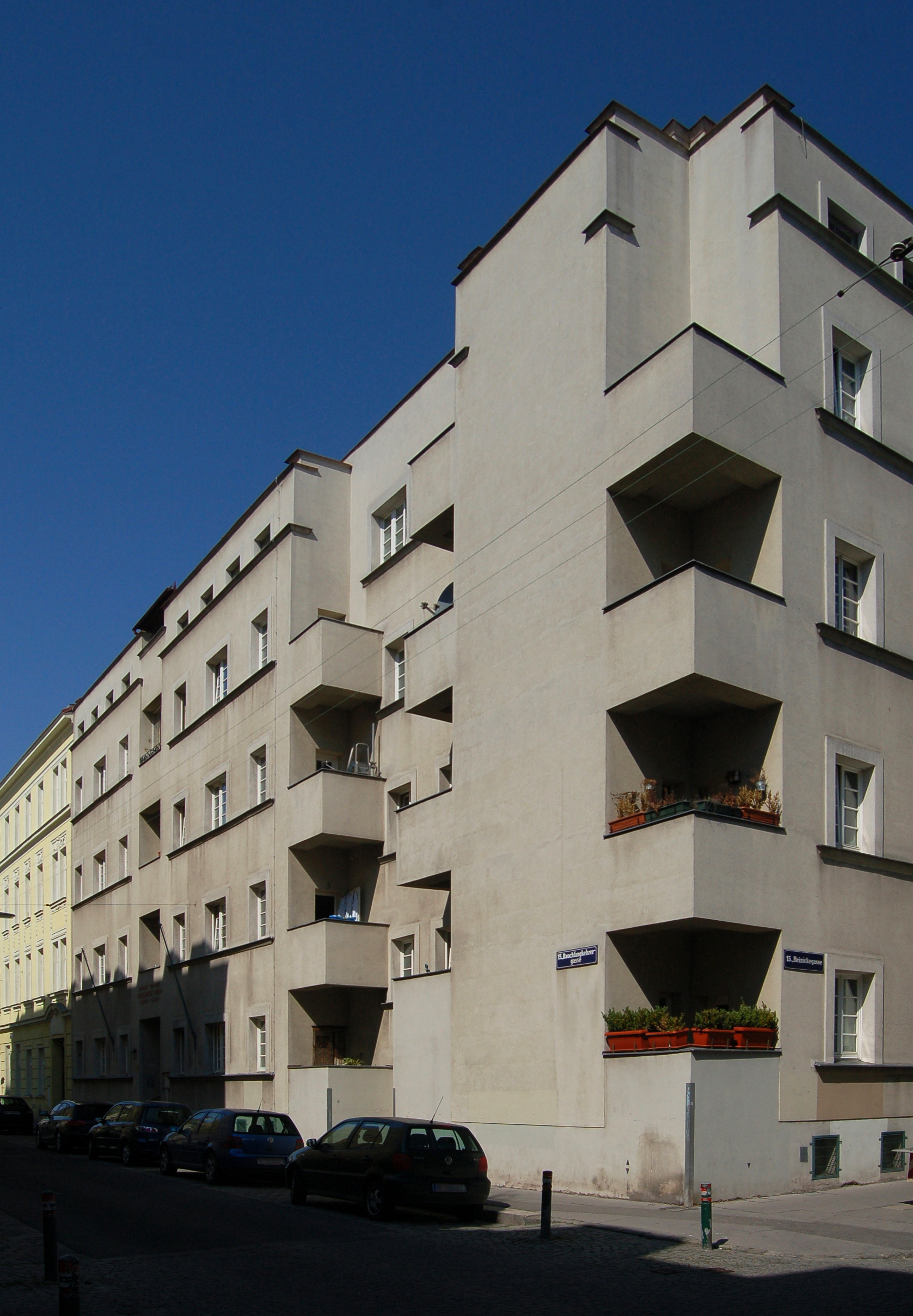 The Gemeindebau Rauchfangkehrergasse 26 in Rudolfsheim-Fünfhaus, the 15th district of Vienna, was built in 1924-25. It is a Cultural Heritage Monument.